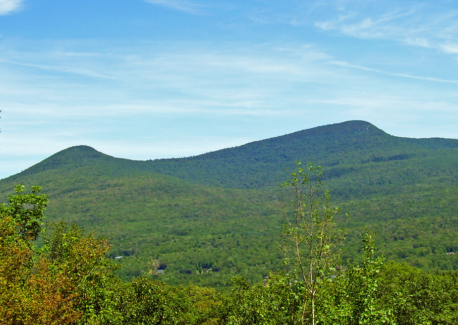 Kaaterskill High Peak from Dibble's Quarry on Sugarloaf Mountain.